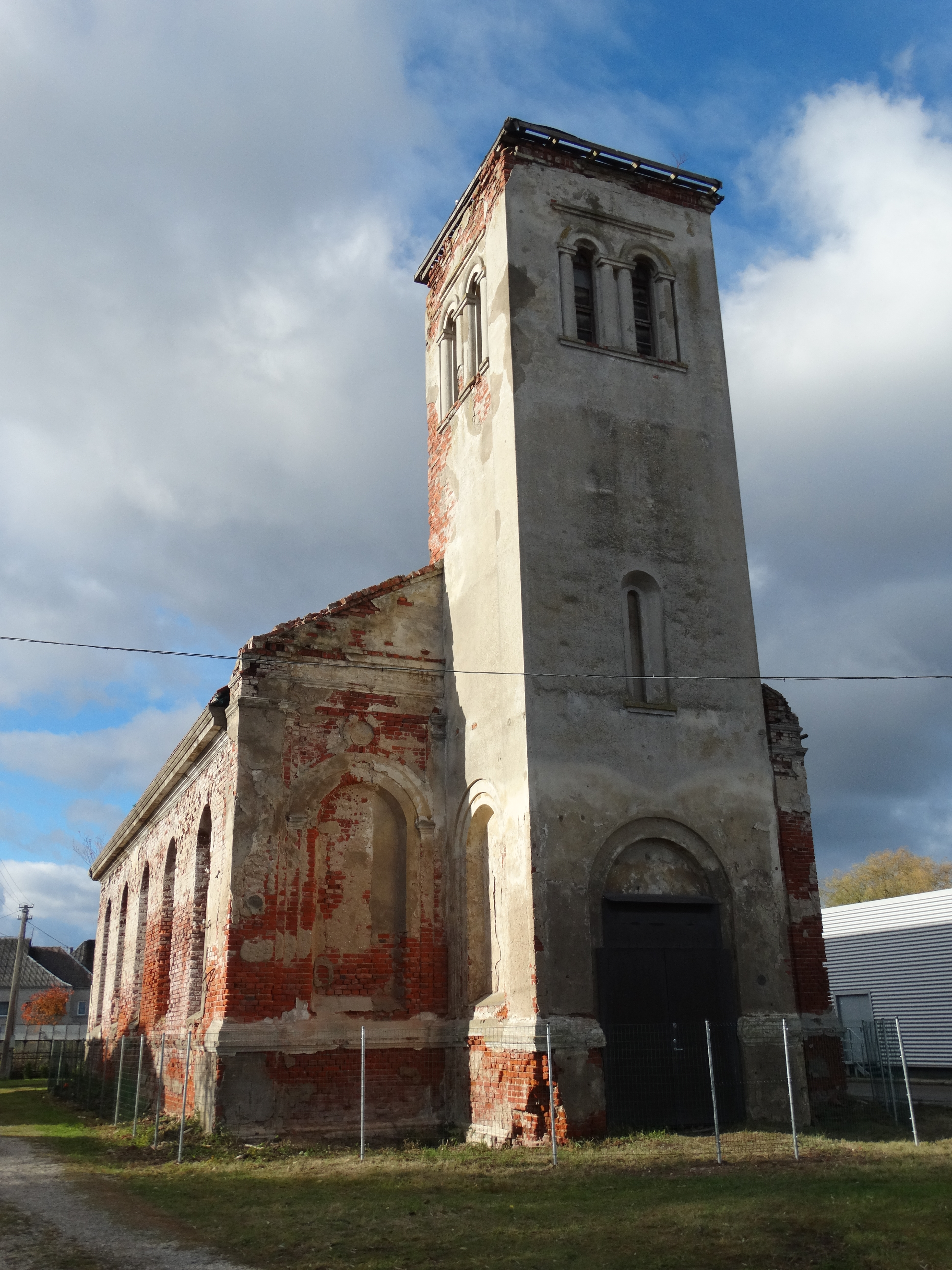 Evangelical Lutheran Church in Garliava, Lithuania